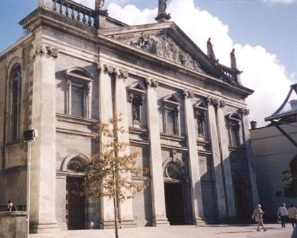 West front of the Holy Trinity Cathedral of the Roman-Catholic diocese of Waterford and Lismore.